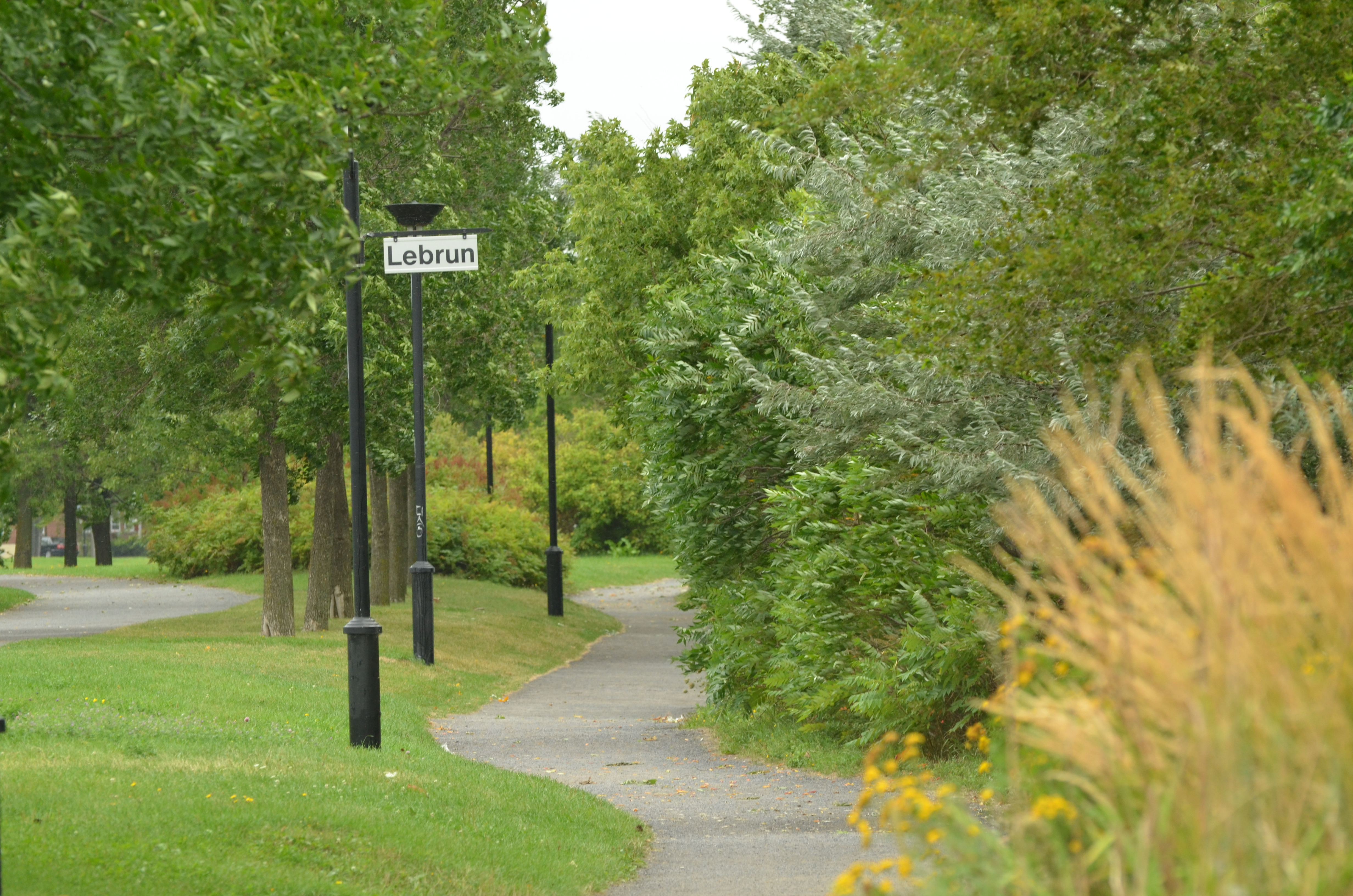 Promenade Bellerive in Montréal